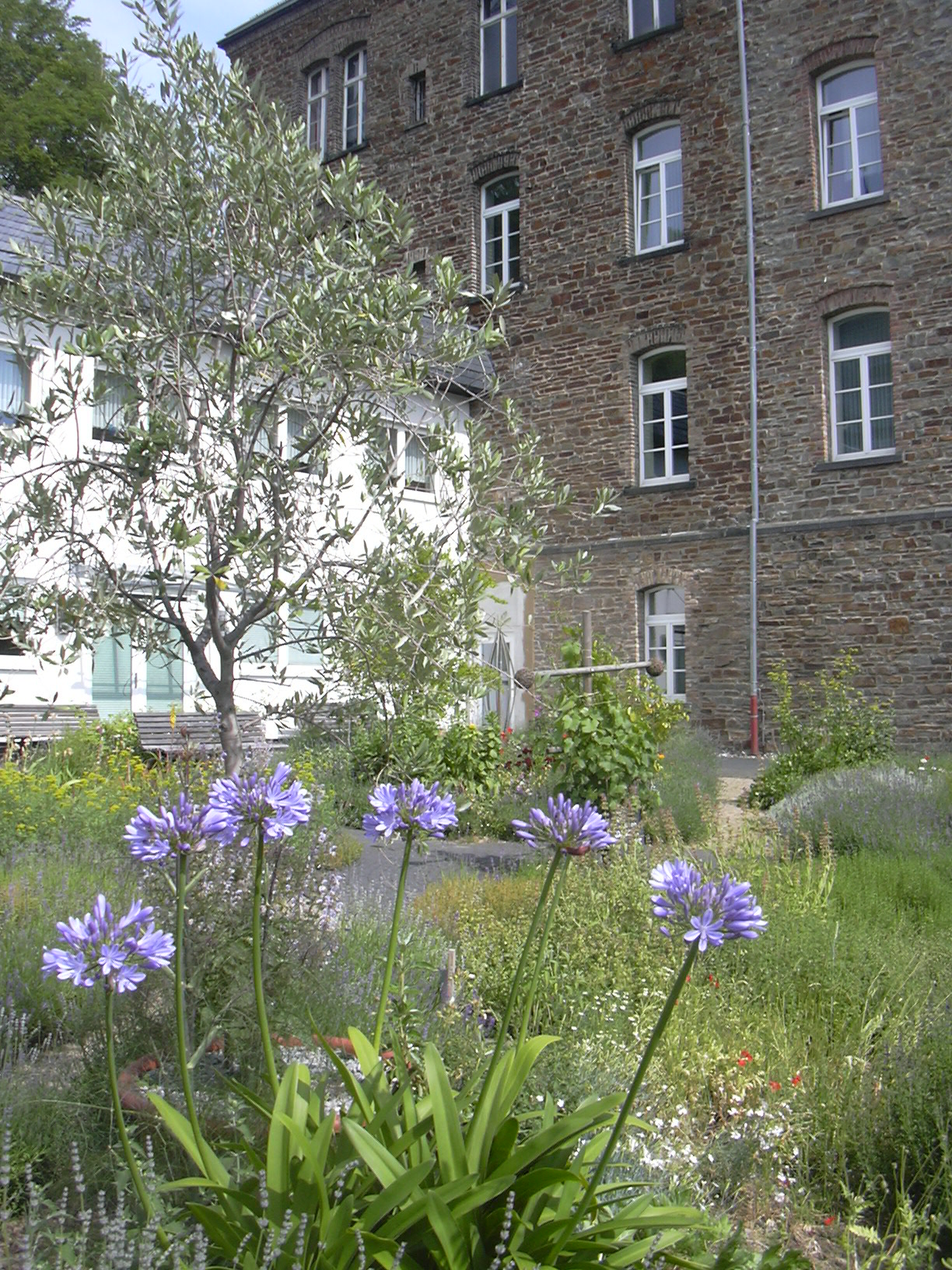 Monastery Gardens, Waldbreitbach, Westerwald/Germany